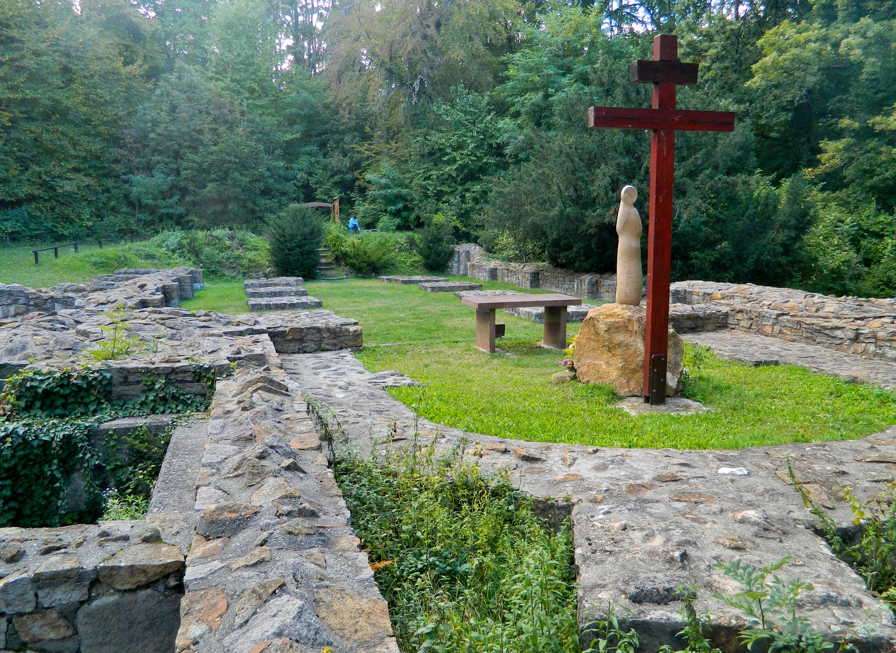 Ruins of Budaszentlőrinc Pauline Monastery This is a photo of a monument in Hungary. Identifier: 12636